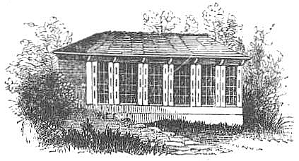 Greenhouse on the Beekman Estate where Nathan Hale was held prisoner the night before his execution